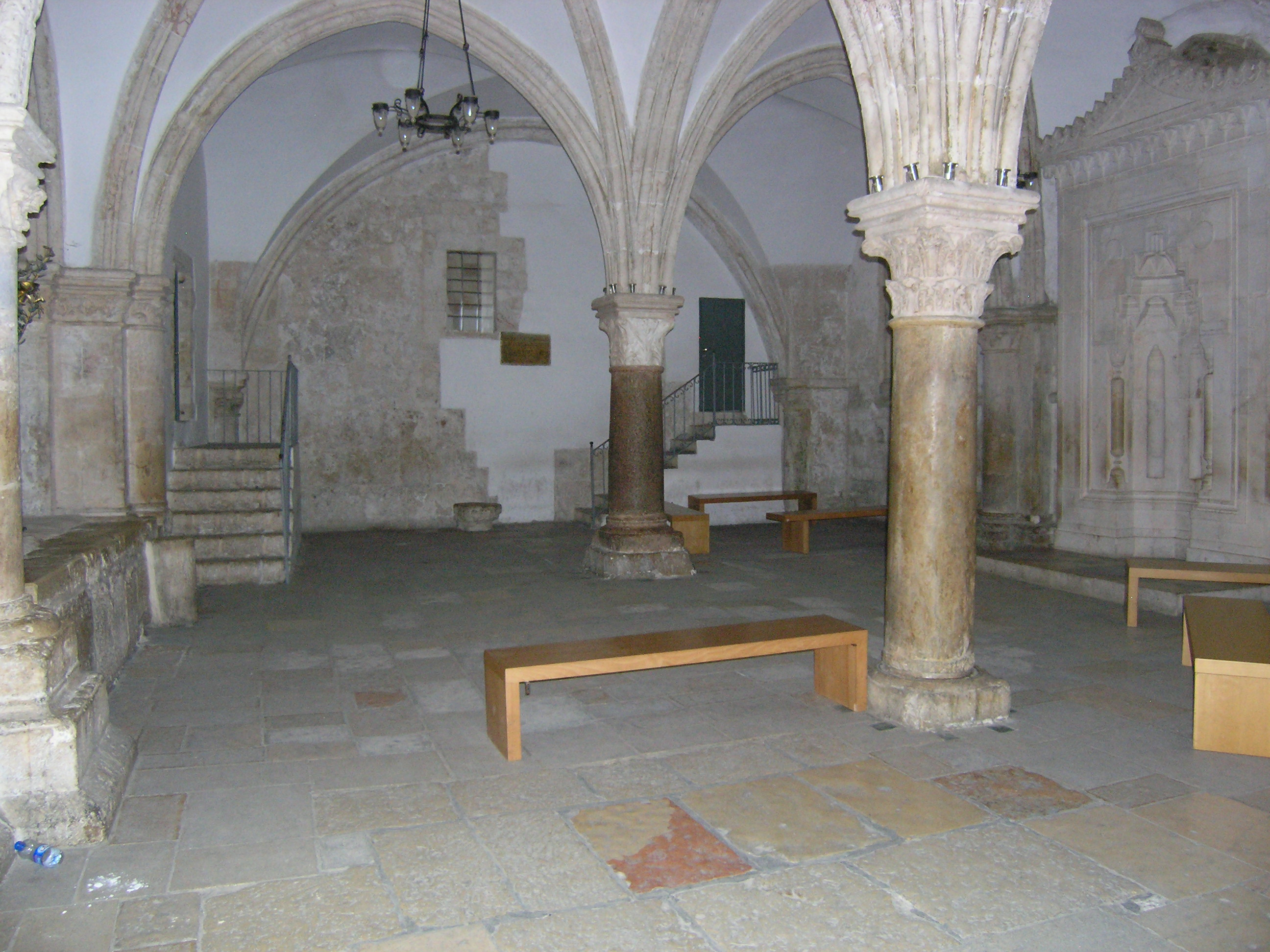 Jerusalem (Israel): Cenacle